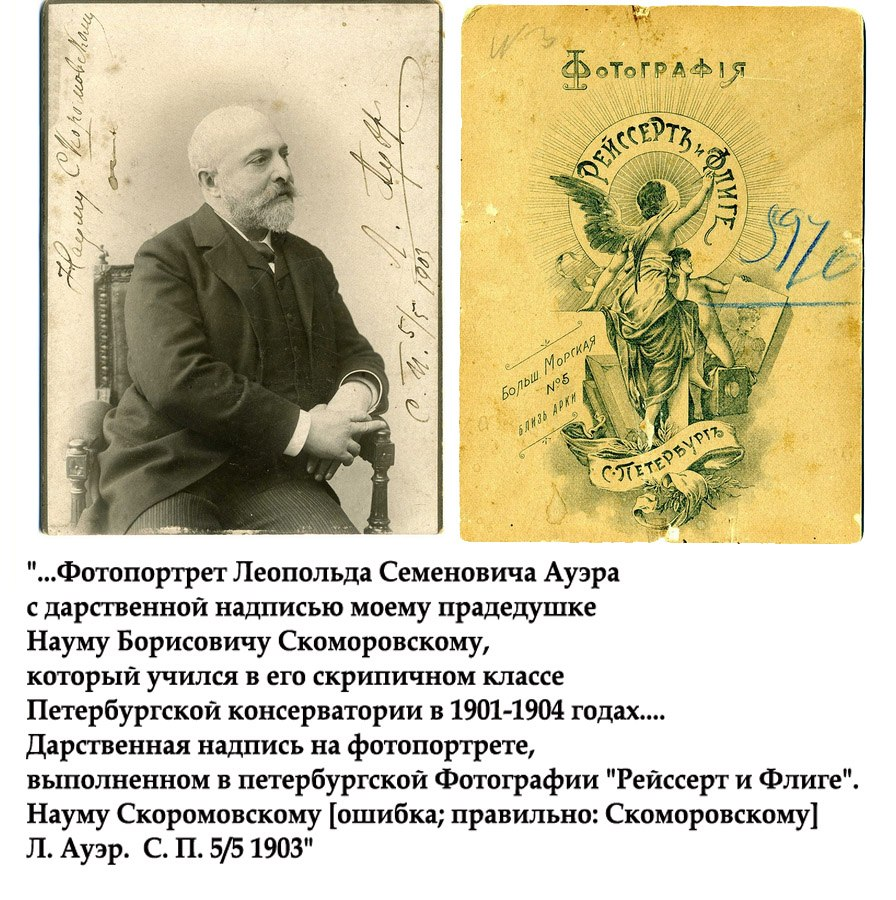 Auer.